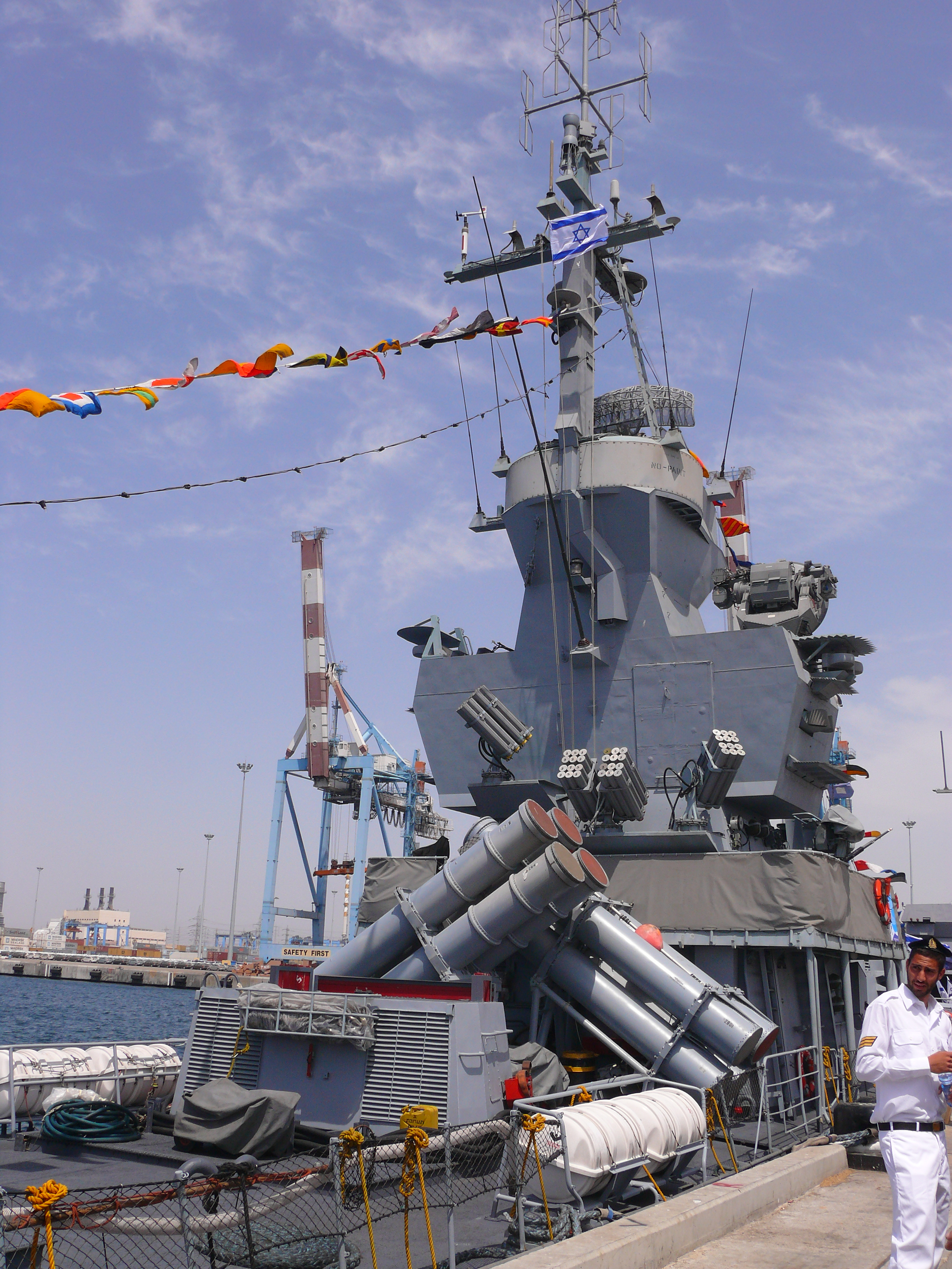 INS Tarshish Saar 4.5 class missile ship